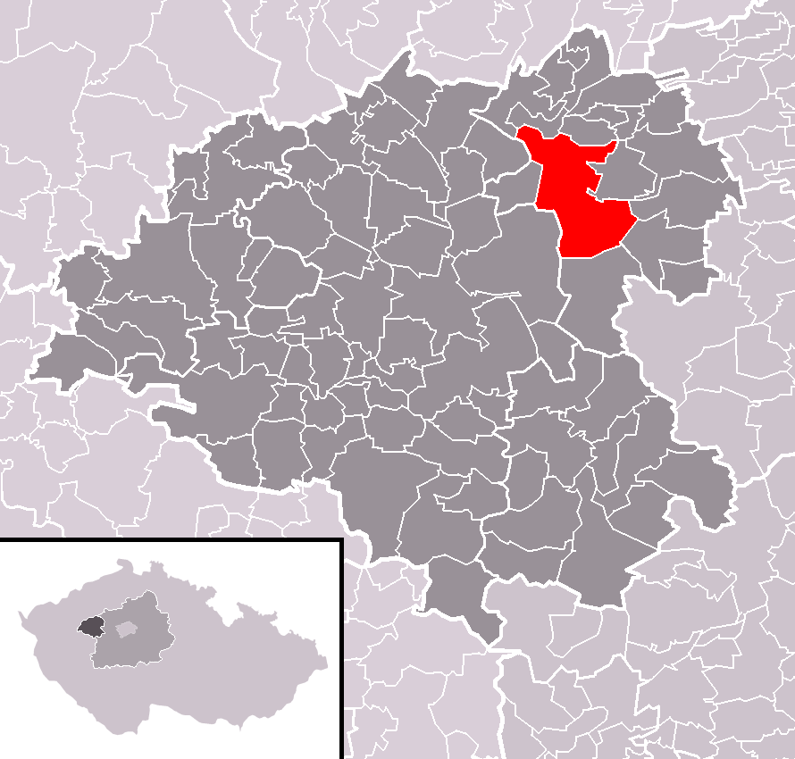 Location of Řevničov municipality within Rakovník District and (identical) administrative area of Rakovník as a Municipality with Extended Competence.